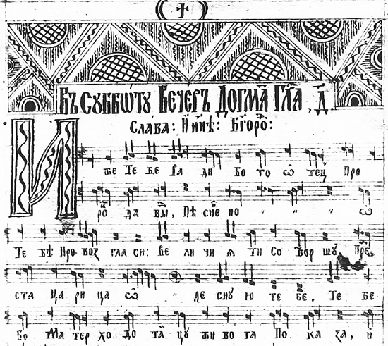 Yuhasevych-Skliarsky, Ivan "Hirmologion"